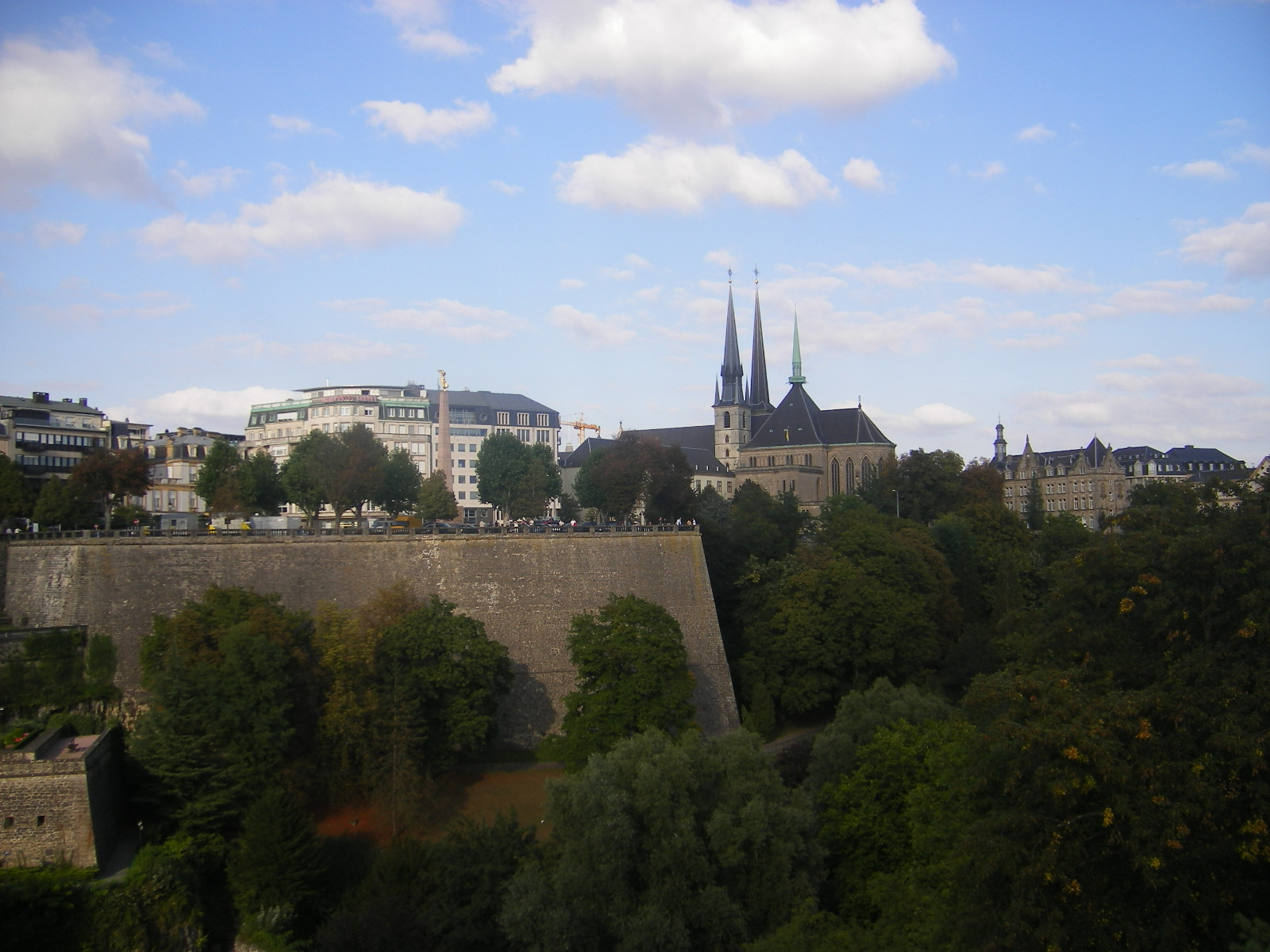 Luxembourg city - fortifications